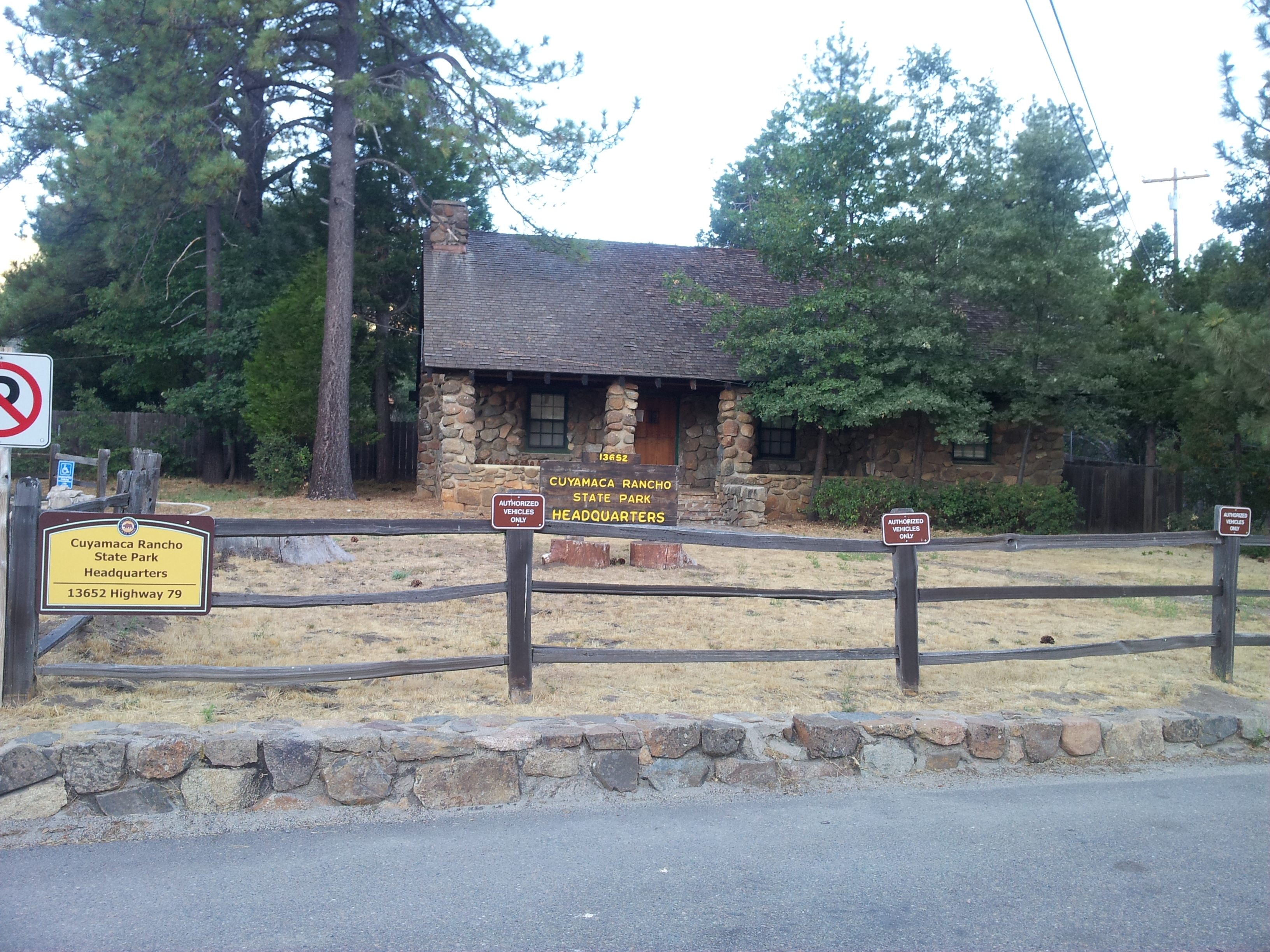 The Cuyamaca Rancho State Park stone headquarters building and sign. Located in the Laguna Mountains, of San Diego County, California.